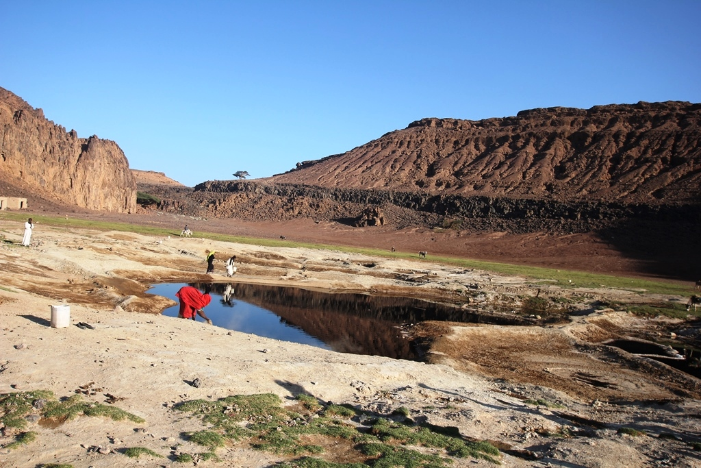 BVFMuweilihCrater